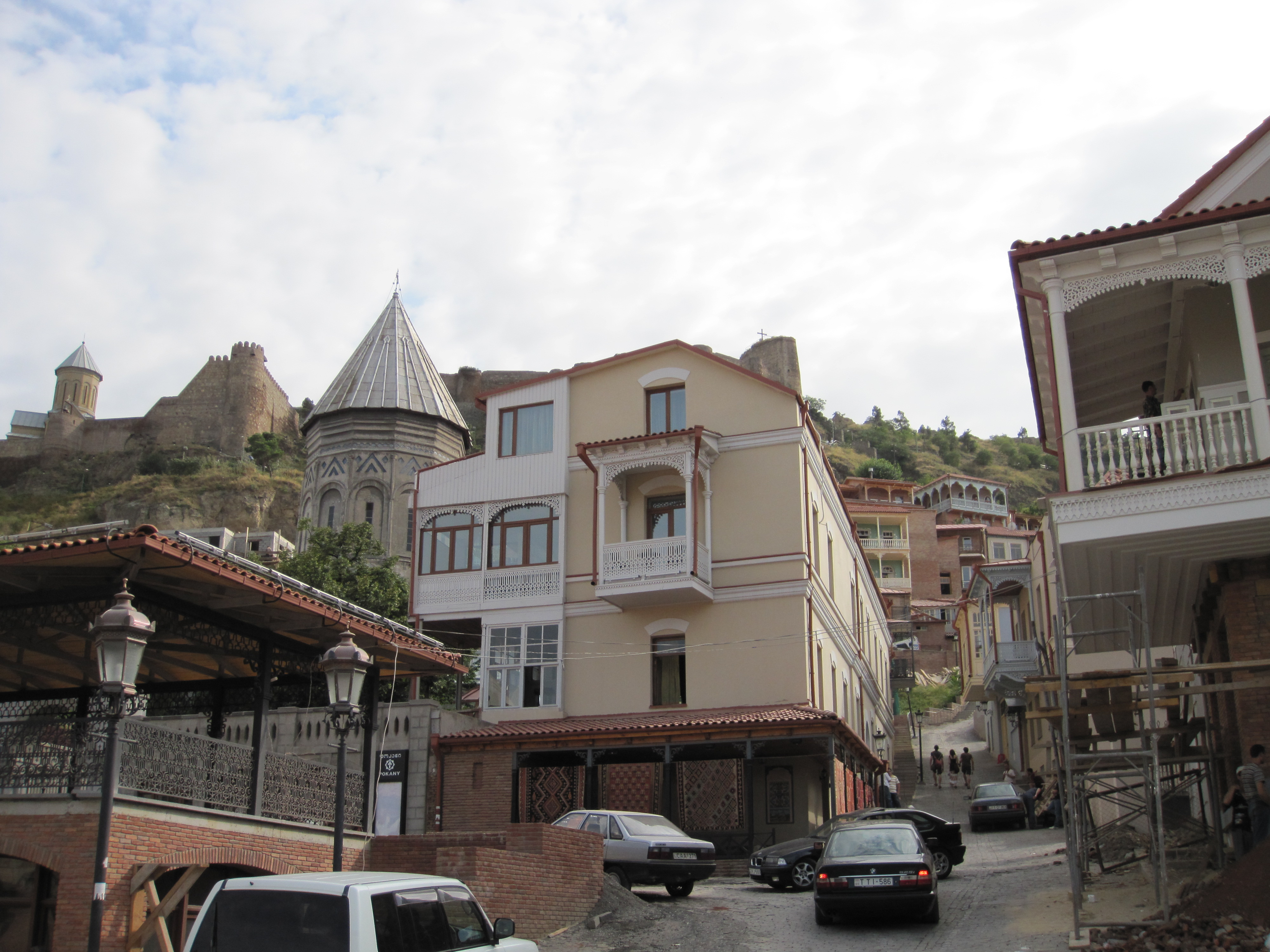 View of Narikala fortress from Gorgasali Square in Old Tbilisi